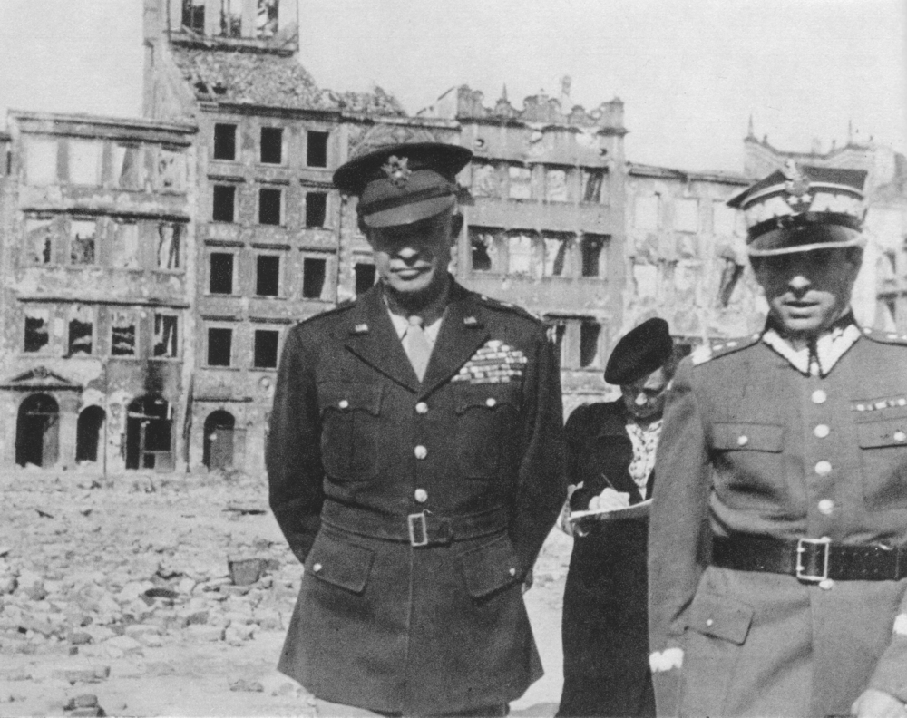 General Dwight Eisenhower during his visit in Warsaw, capital of Poland. Picture taken on the Old Town Square, destroyed in 1944 by German forces after supression of Warsaw Uprising (1944). Right, General Marian Spychalski.